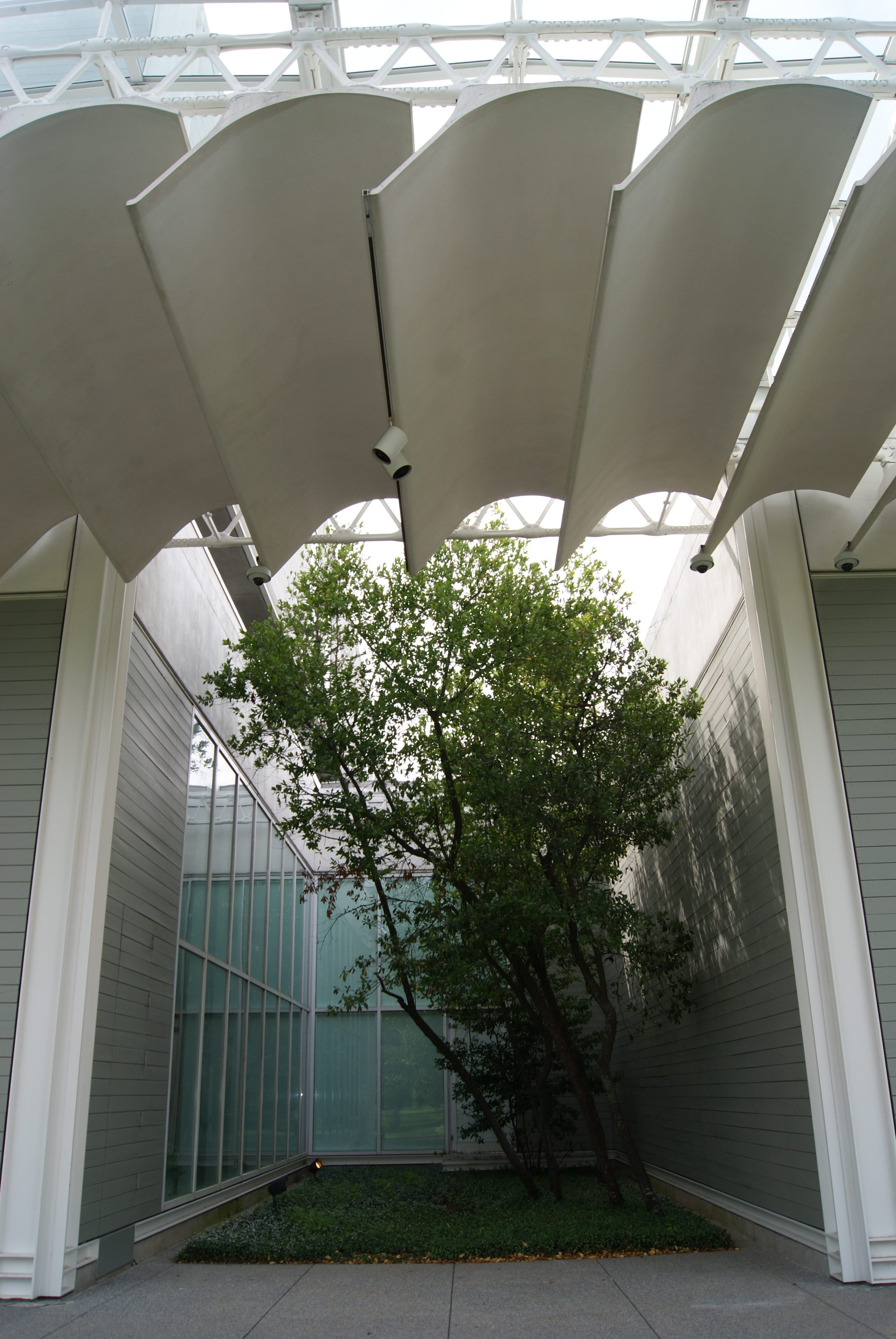 The Menil Collection, Houston, Texas, USA.